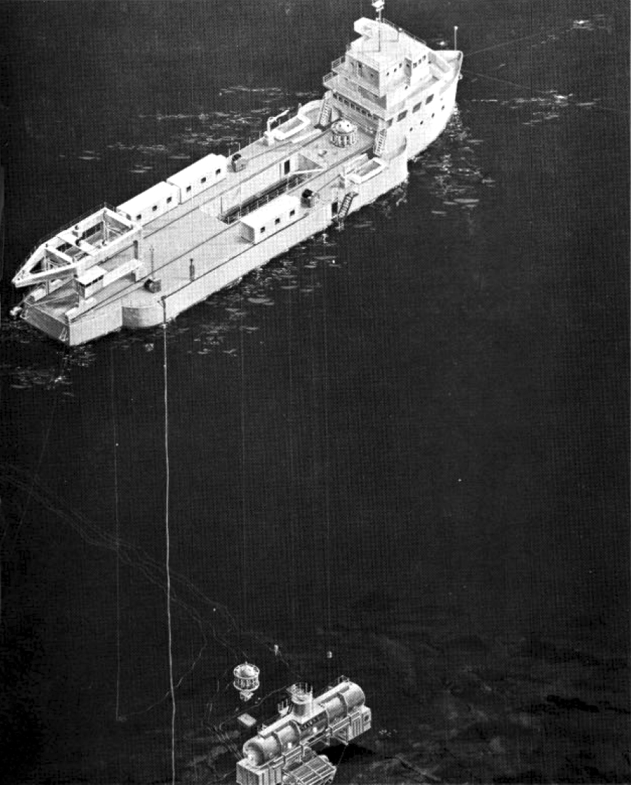 An artist's impression showing the U.S. Navy SEALAB III at a depth of 200 m and the support ship USS Elk River (IX-501, ex LSM(R)-501).